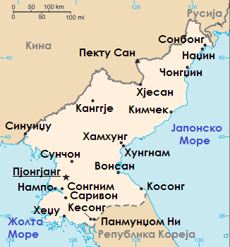 Map of DPR of Korea in Macedonian.